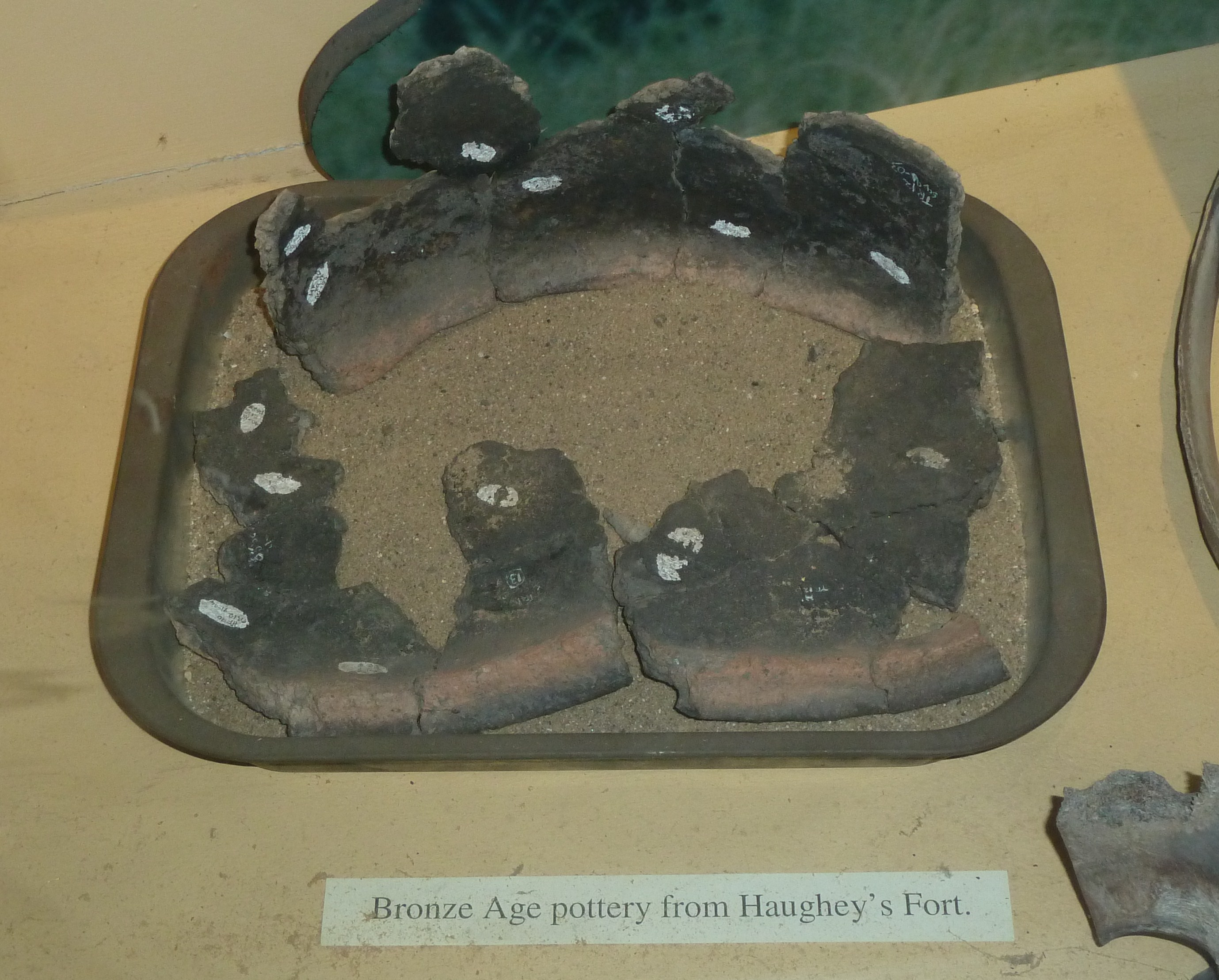 Prehistory of Ireland Bronze Age Pot from Haughey's Fort